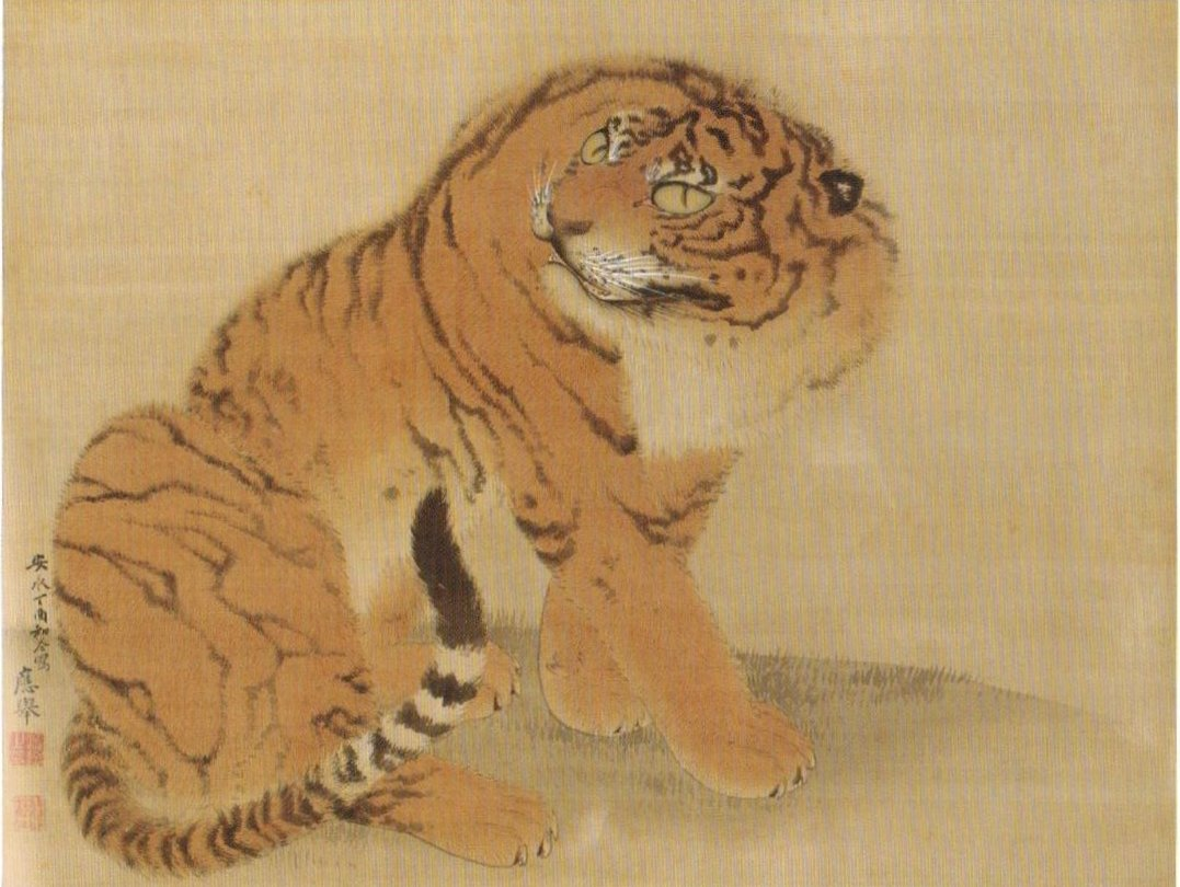 Sitting Tiger by Maruyama Ōkyo, 1777, ink and color on silk, 45.1 x 58.9 cm, Minneapolis Institute of Art